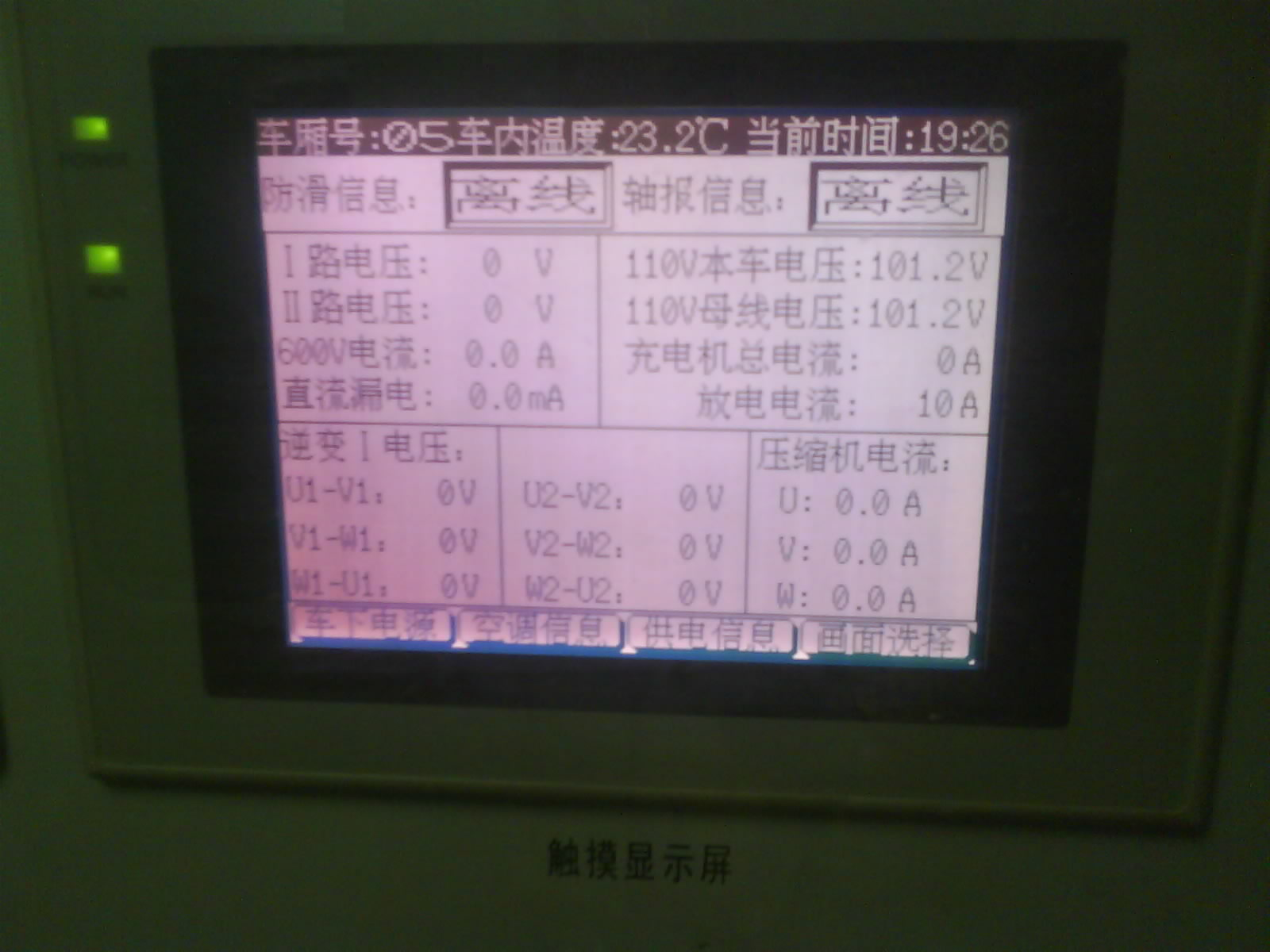 The electronic monitor of 25G railway passenger carriage